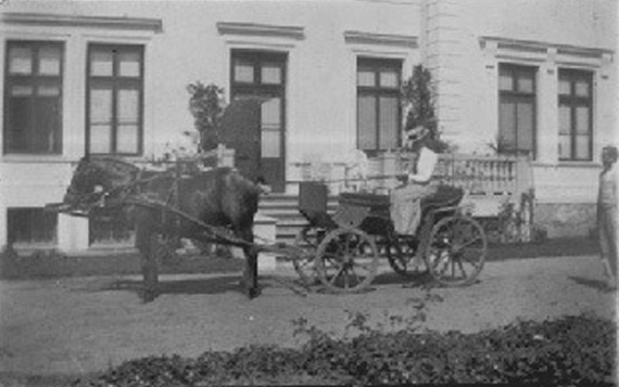 Estate in Ceranow, Poland, around 1904.